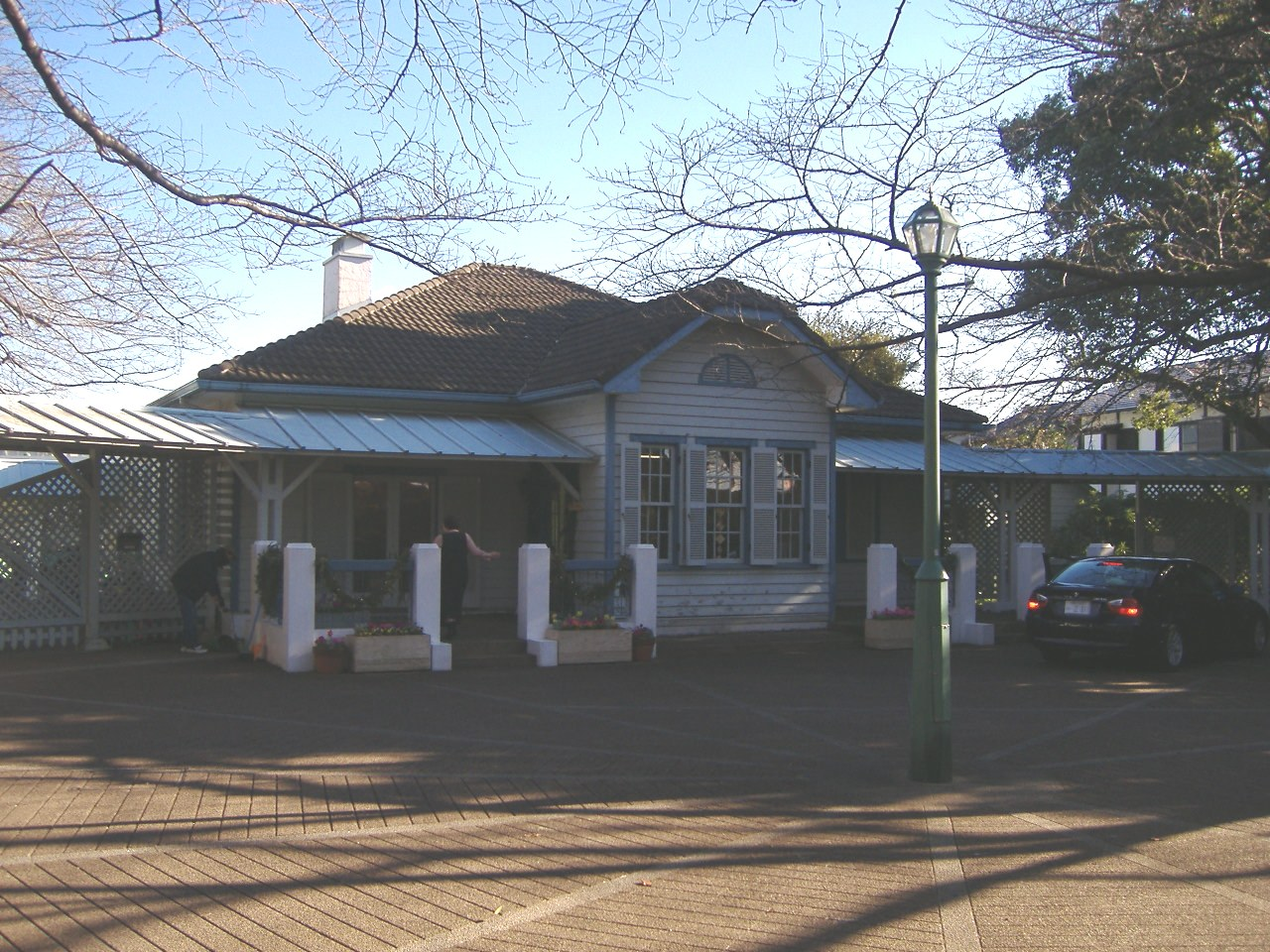 Yamate No.68 House in Yamate Park (Yokohama, Japan)